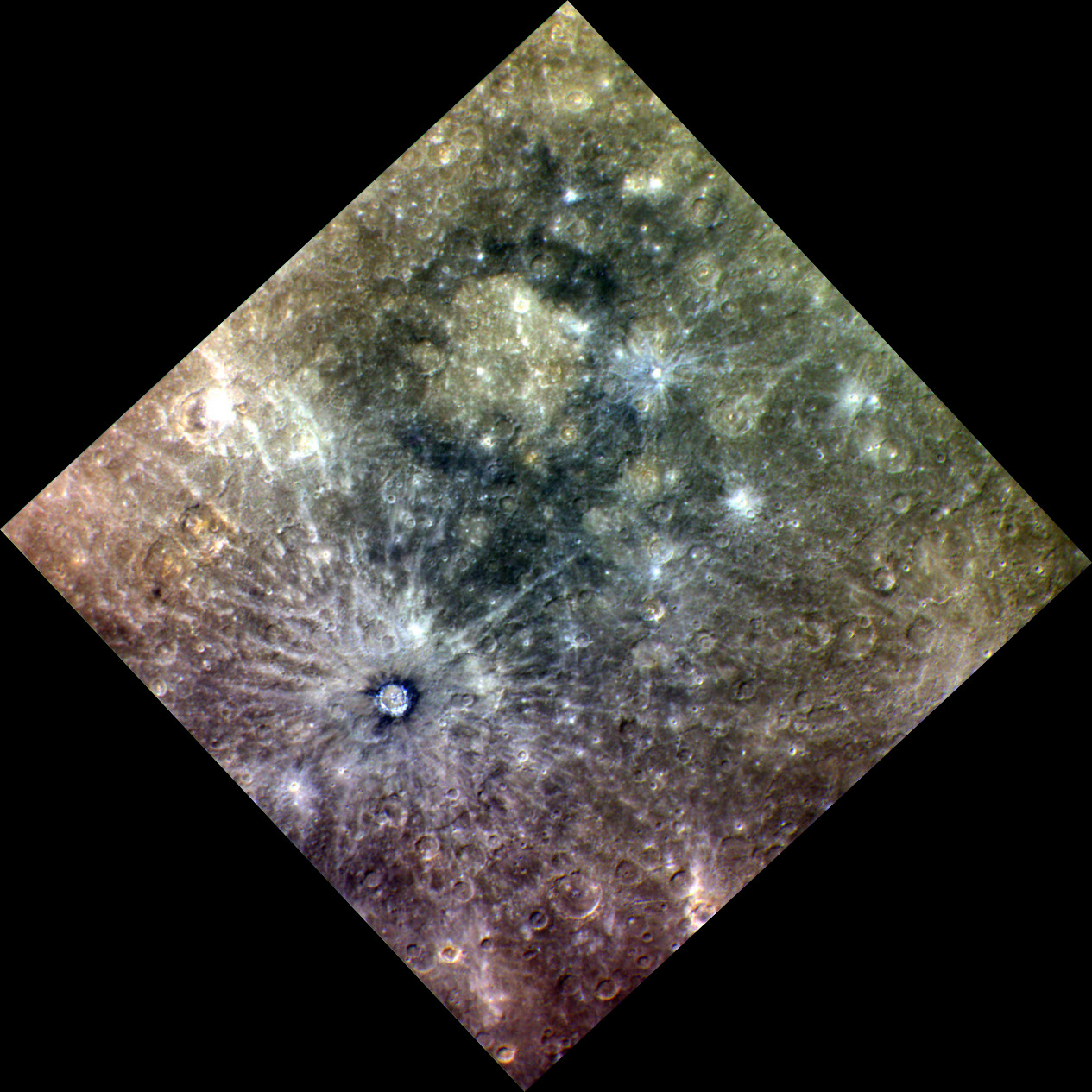 Tolstoj crater (top center) and Basho crater (lower left) on Mercury. Approximate color representation combining three images acquired by MESSENGER Wide Angle Camera (EW0217476233I, EW0217476237F, EW0217476253G) with I (996.2 nm), G (748.7 nm), and F (433.2 nm) filters. Combined in GIMP software as RGB (Red-Green-Blue), and then rotated so that north is up. Statistics for I image: Emission Angle: 0.6 Incidence Angle: 33.6 Latitude: -25.4 Longitude: 198.1 Phase Angle: 34.0